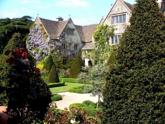 Abbey House and Gardens Malmesbury. Home of the Naked Gardeners. The house was built by a wealthy merchant William Stumpe sometime in the 16th Century.